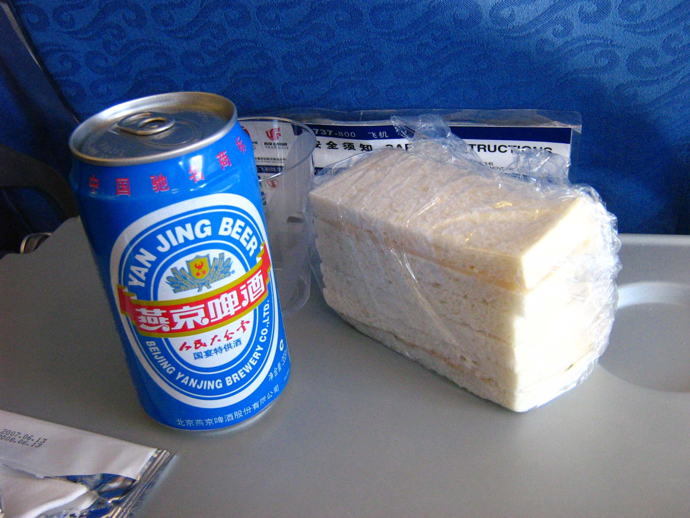 A can of Yanjing (燕京啤酒) Beer served onboard of an Air China plane Boeing-737